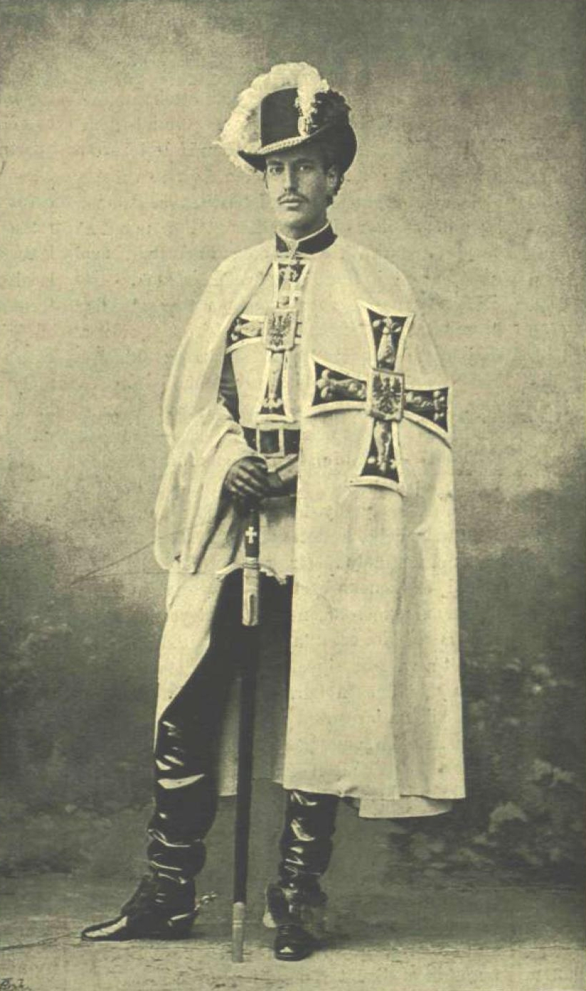 Archduke Eugen of Austria